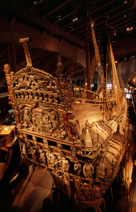 The Wasa from the stern, Stockholm, May 2004